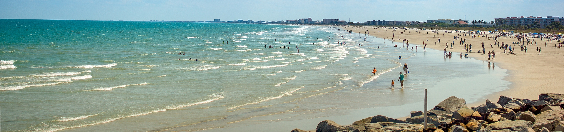 Beach in Cape Canaveral, Florida